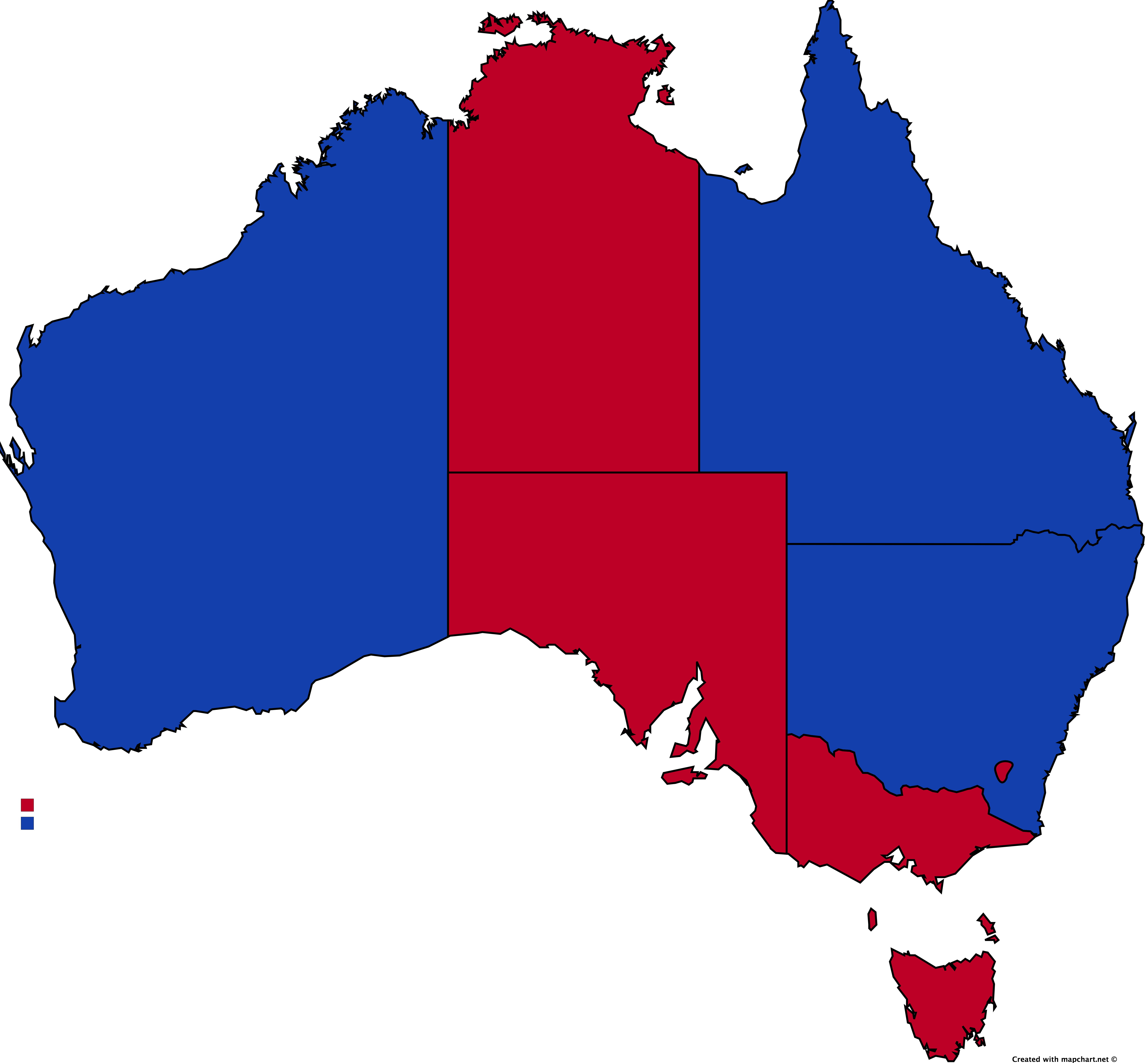 States won by the ALP and the Coalition by Popular Vote.